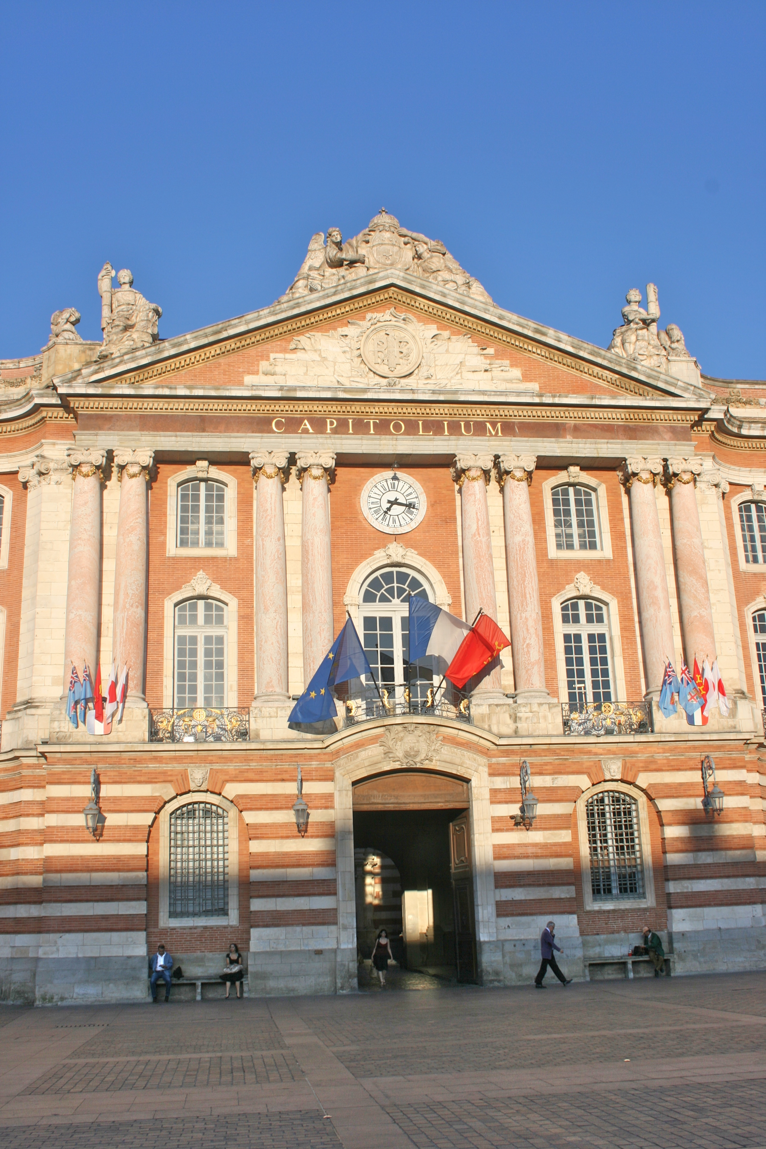 The Capitole de Toulouse in Toulouse, France.